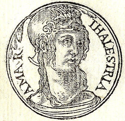 Queen Thalestris of the Amazons brought 300 women to Alexander the Great, hoping to breed a race of children as strong and intelligent as he.